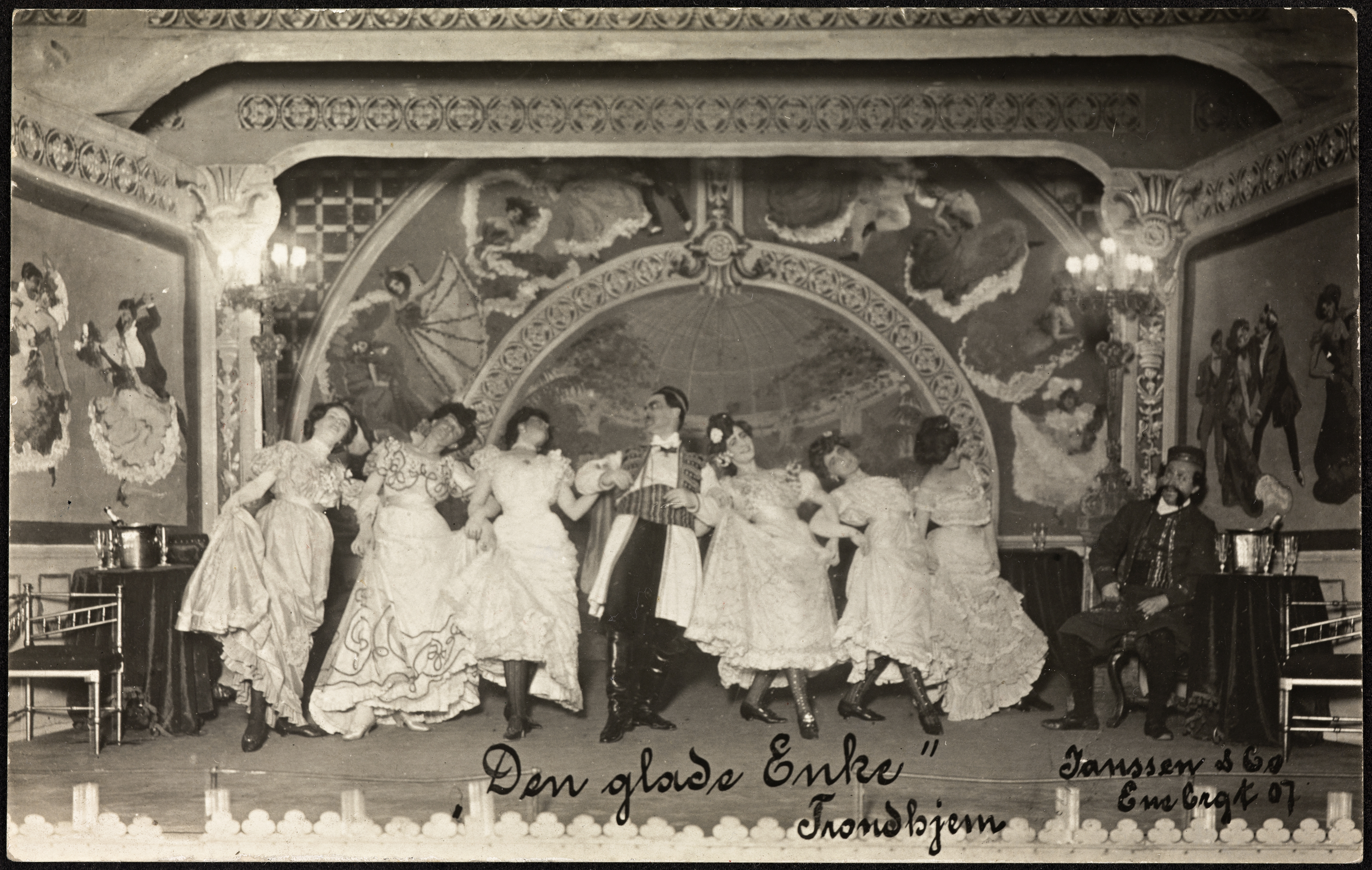 Beskrivelse / Description: "Den glade enke" ("Die lustige Witwe) er en operette i tre akter med musikk av den østerrikske komponisten Franz Lehár. Dato / Date: 1907 Sted / Place: Sør-Trøndelag, Trondheim Fotograf / Photographer: Janssen & Co. Utgiver / Publisher: ukjent / unknown Digital kopi av original / Digital copy of original: s/h postkort, sølvgelatin Eier / Owner Institution: Nasjonalbiblioteket / National Library of Norway Lenke / Link: Bildesignatur / Image Number: blds_07053